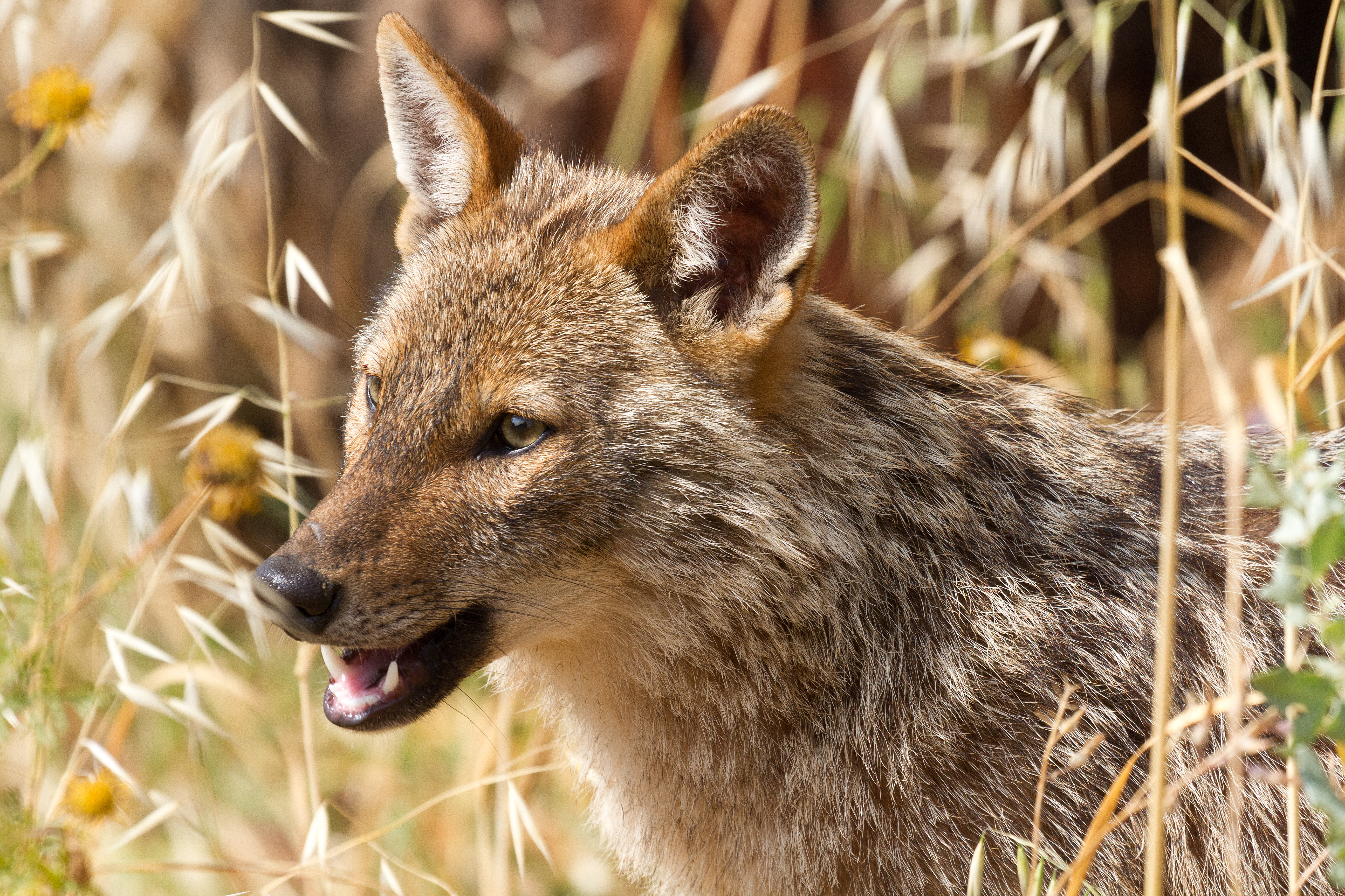 Portrait of golden jackal (Canis aureus), taken at Yarkon park in Israel